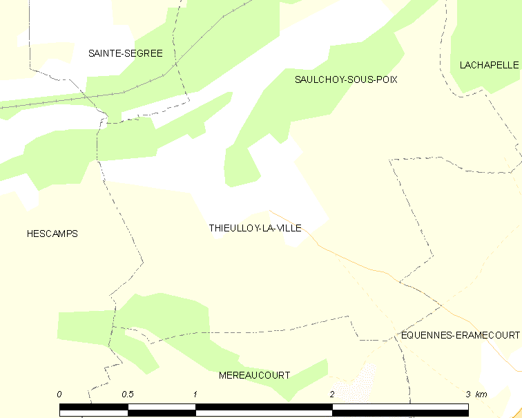 Map of French municipality Thieulloy-la-Ville